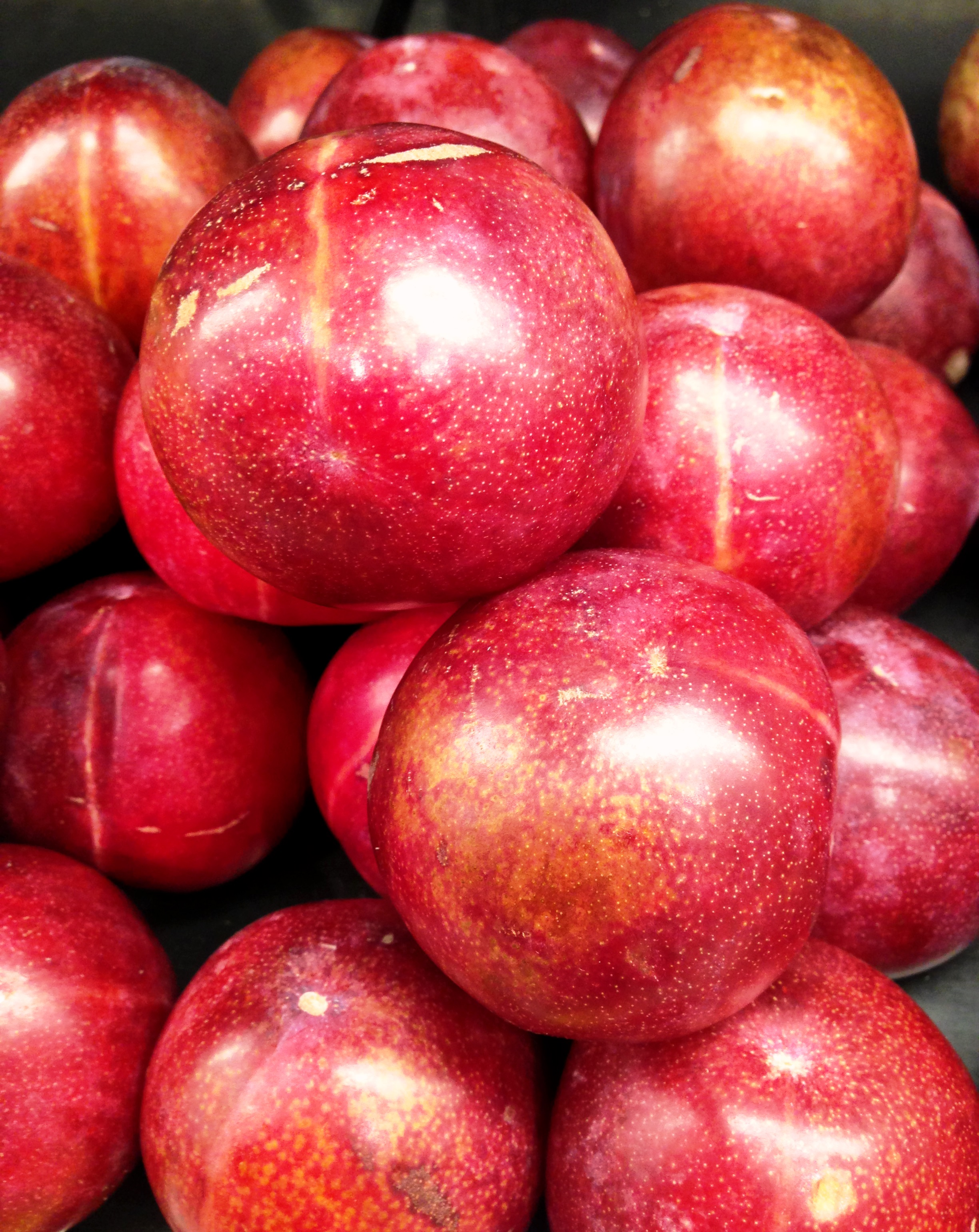 Red pluots